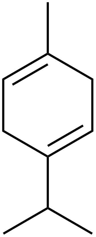 chemical structure of gamma-terpinene